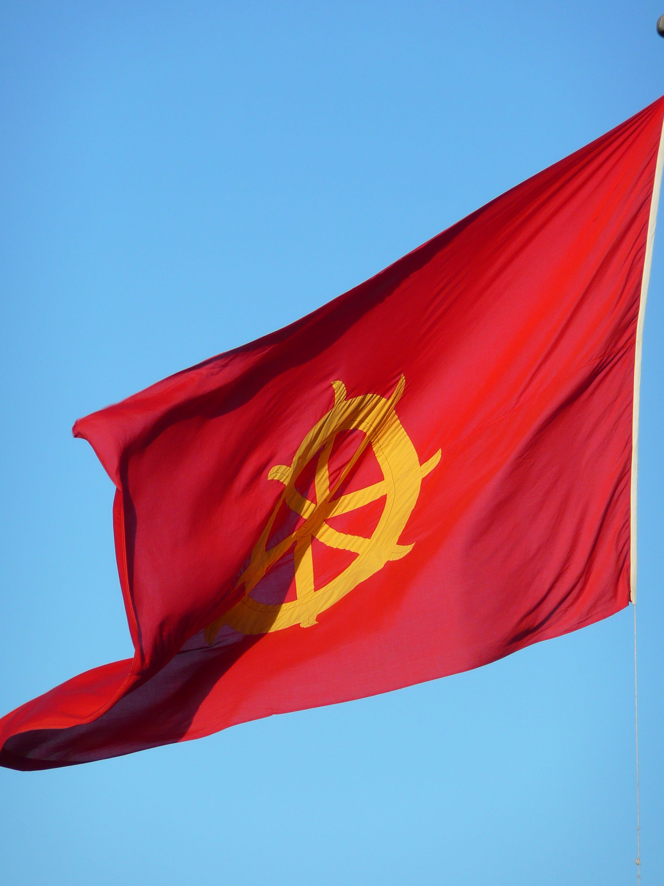 The flag that regularly flies from the roof of St Catharine's College, taken from an upstairs window of Corpus Christi across the road.